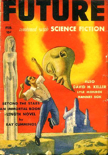 February 1942 cover of the Future combined with Science Fiction magazine, volume 2, issue 3.